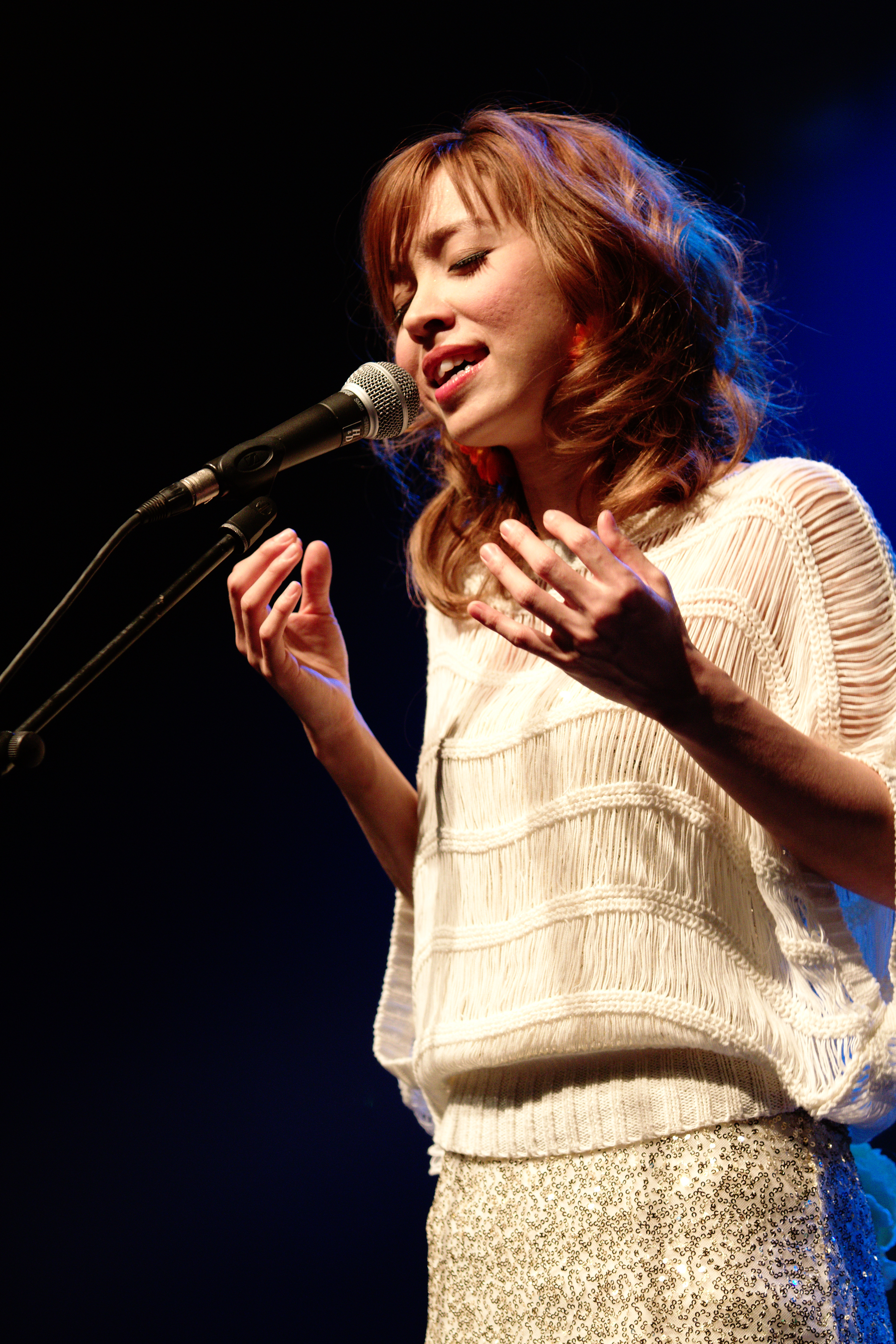 Shanti Snyder live at Japan Expo 2011 (Paris, France)